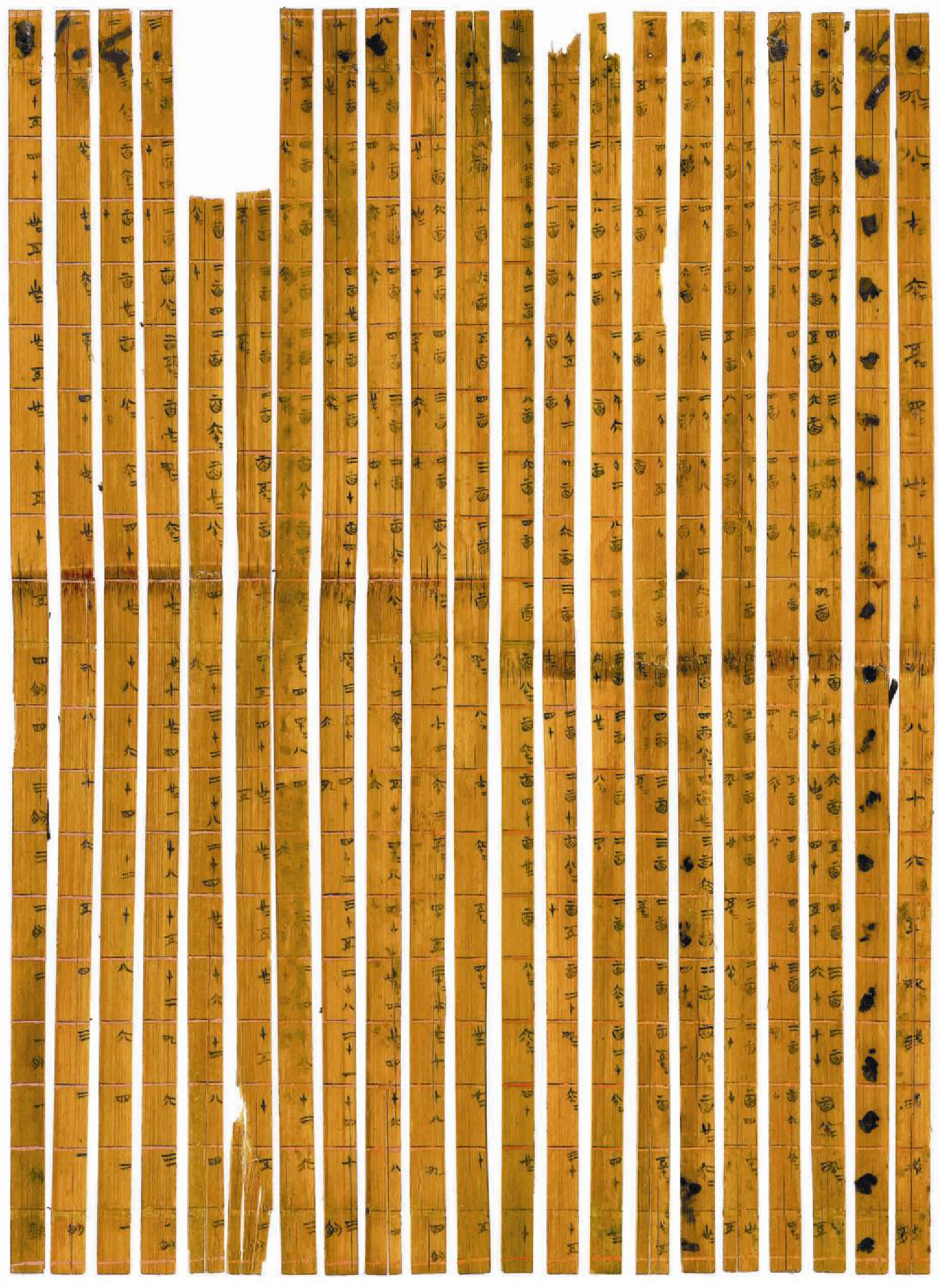 Bamboo slips housed in Tsinghua University. This set of slips was a chart for calculation.